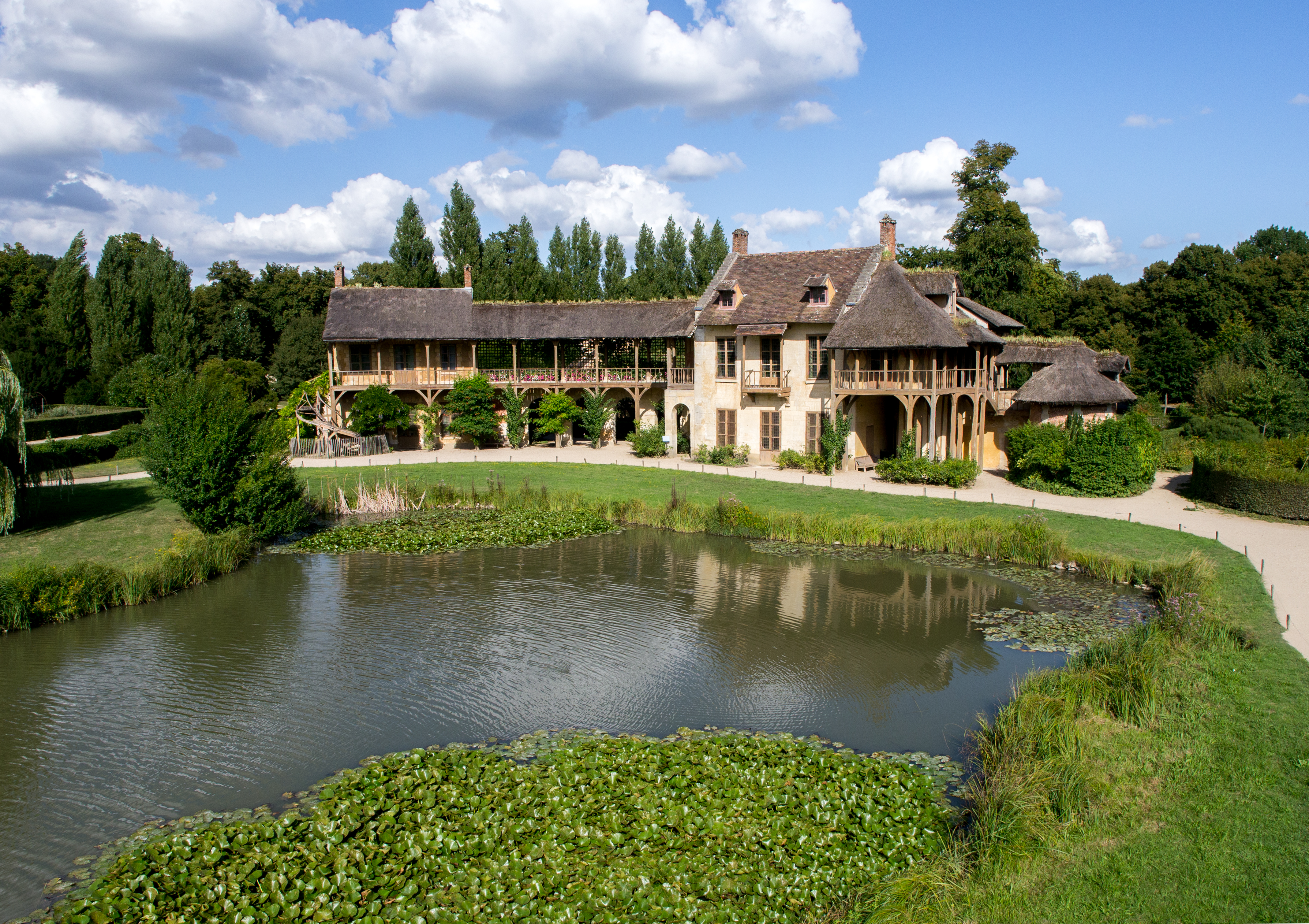 Aerial view of the "Maison de la reine", in the hameau de la reine, Domain of Versailles, France